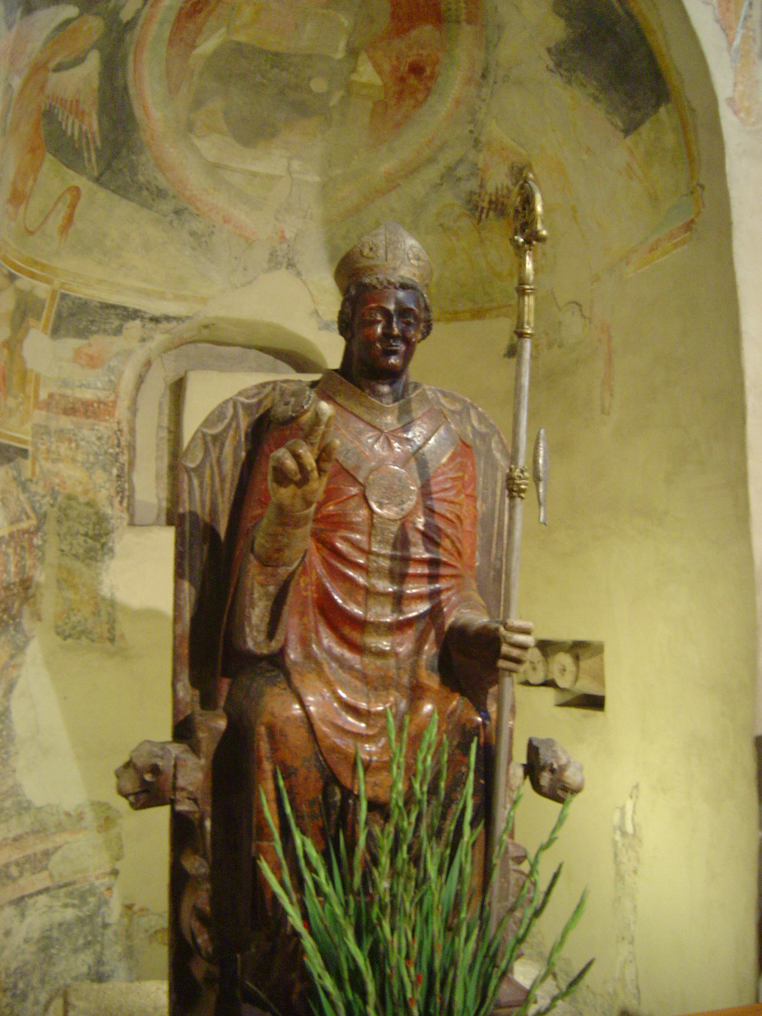 Wooden statue depicting San Zeno, placed inside the basilica di San Zeno, Verona, Italy